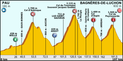 Profile of the 16th stage of the Tour de France 2012